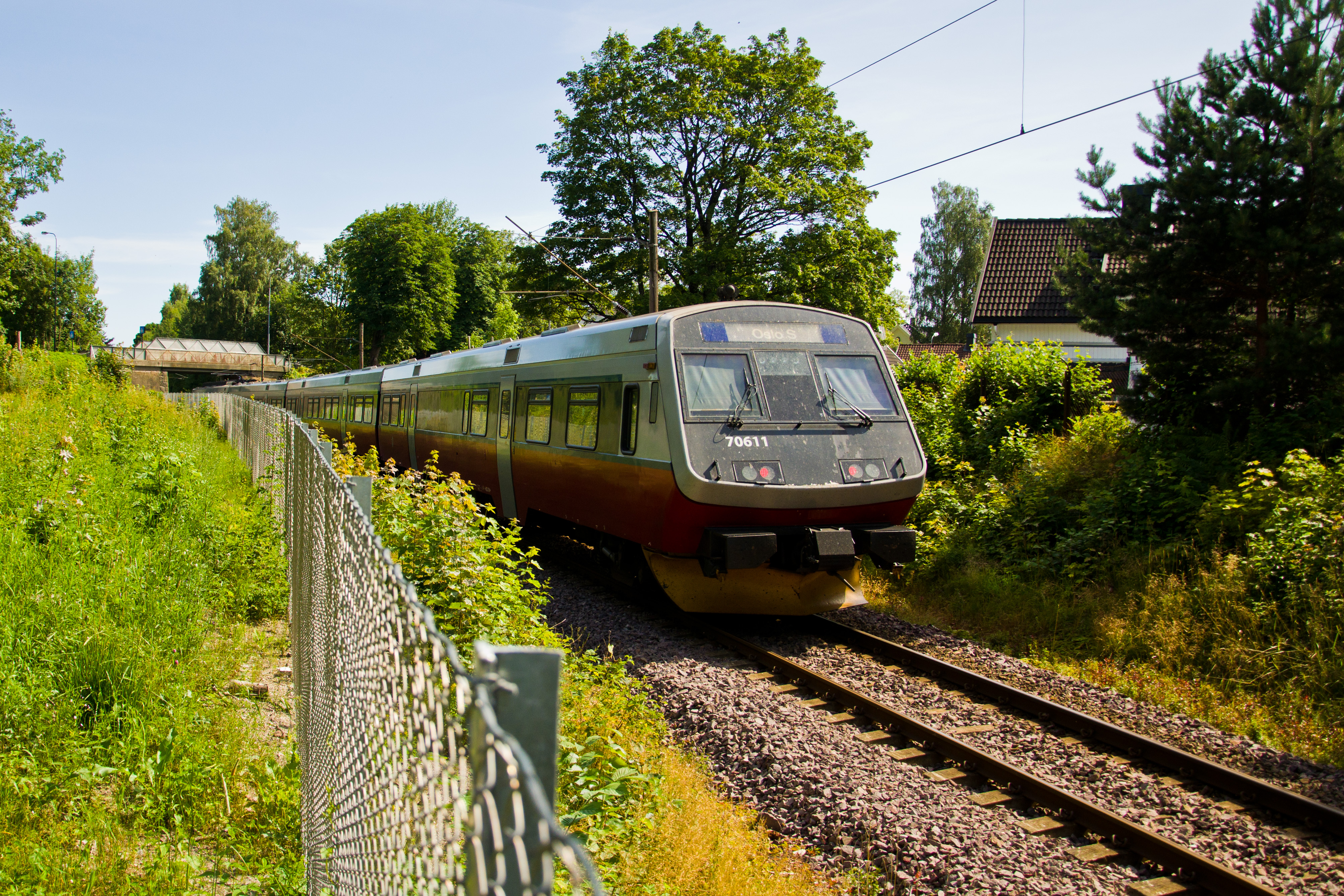 Norwegian State Railways (NSB) Class 70 on the Vestfold Line in Tønsberg.